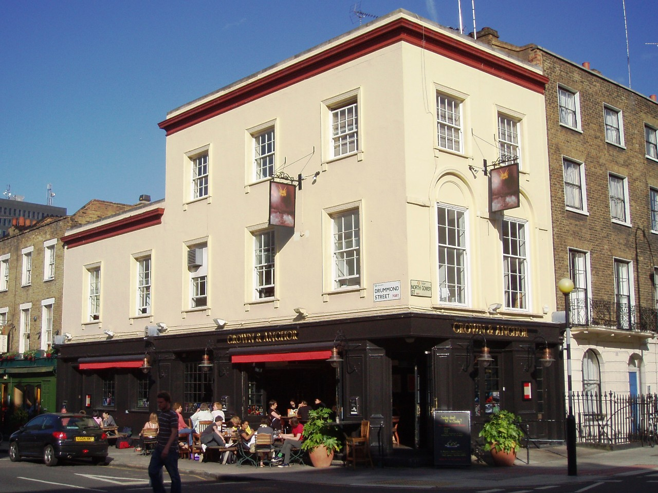 A pub on Drummond St, near Euston. Address: 137 Drummond Street. Owner: Mitchells and Butlers [Metro Professionals] (website). Links: Randomness Guide to London Fancyapint Beer in the Evening Dead Pubs (history)